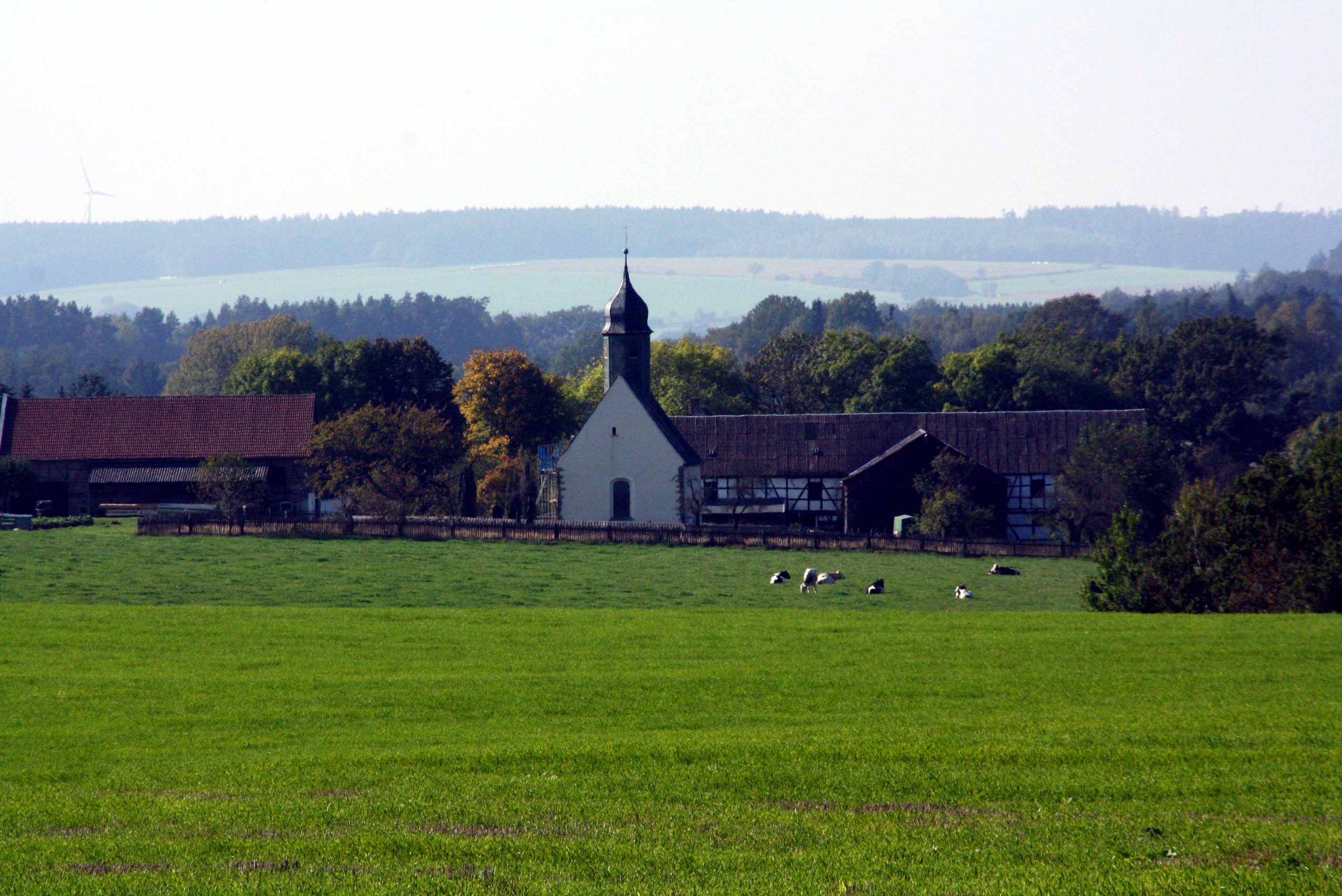 View over Langenwetzendorf-Wittchendorf near Greiz/Thuringia with the village church